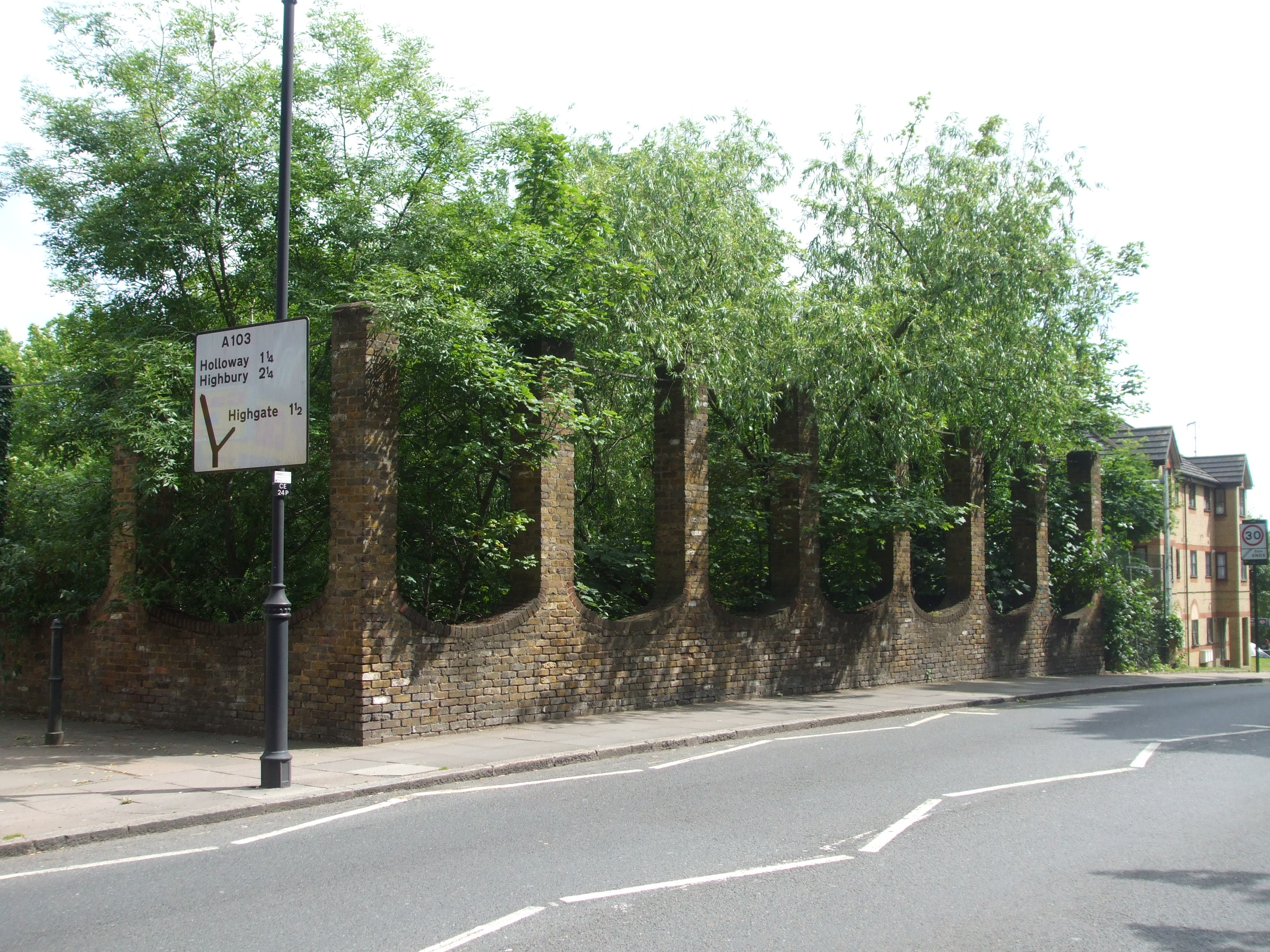 The remains of Crouch End station building. The station closed to passengers in 1954.